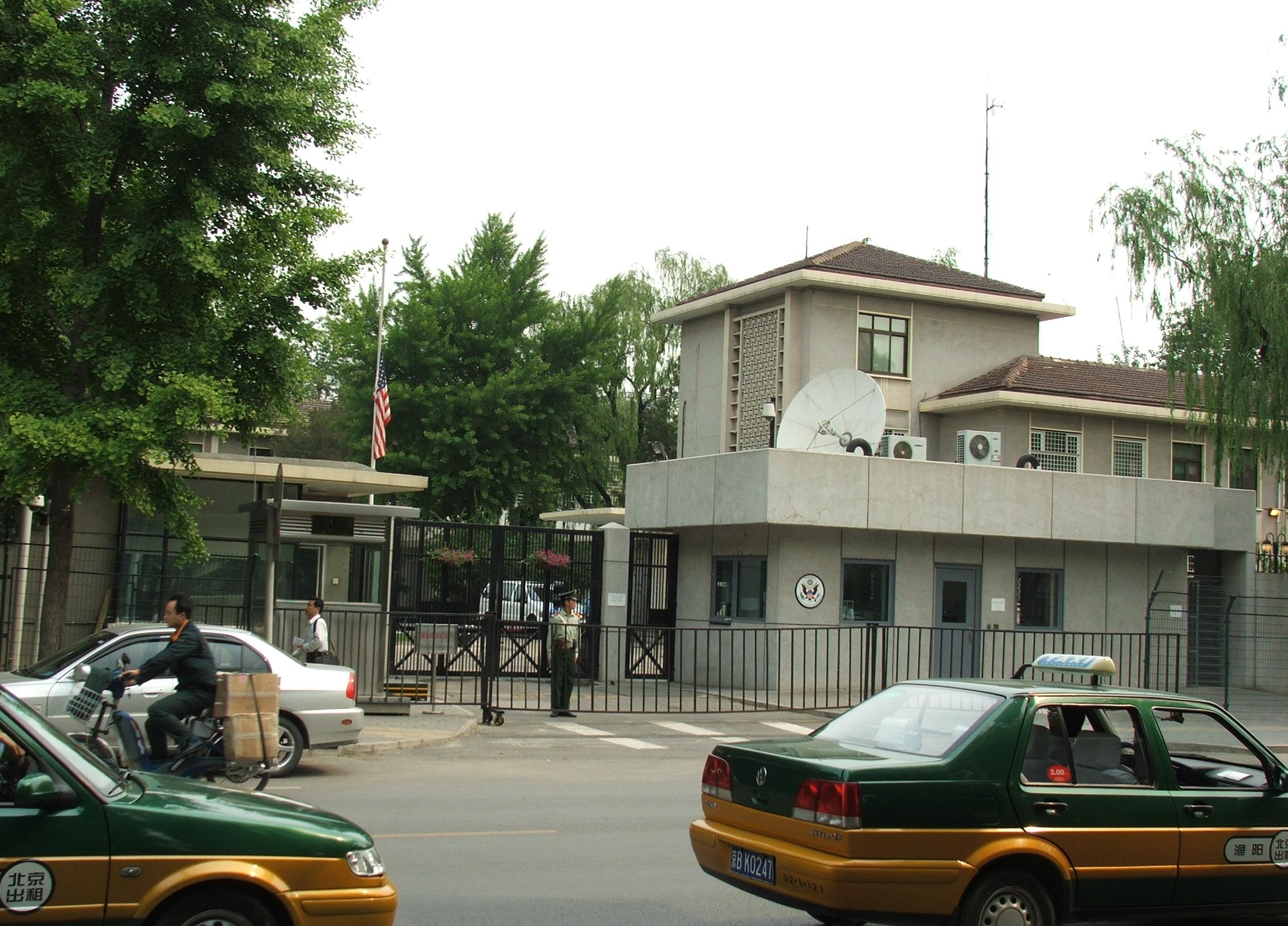 Former Embassy of the United States in Beijing - China.